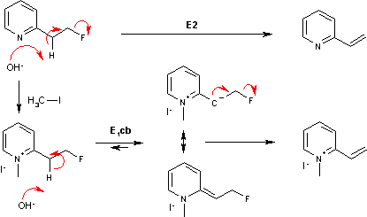 E1cB example reaction